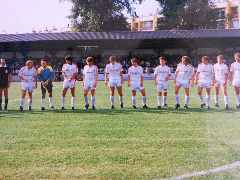 This period was very hopeful in history of the club. The first class was so close and they also played successful for international cup in Germany.